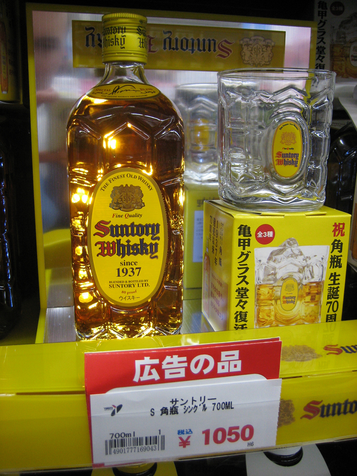 This is a picture of a Suntory Whisky bottle and highball glass display at a Yamaya Liquor store in Iizaka, Japan. It was taken with a Canon PowerShot SD450 Digital Elph camera. The image file extension was changed using a Paint Shop program on a laptop computer.